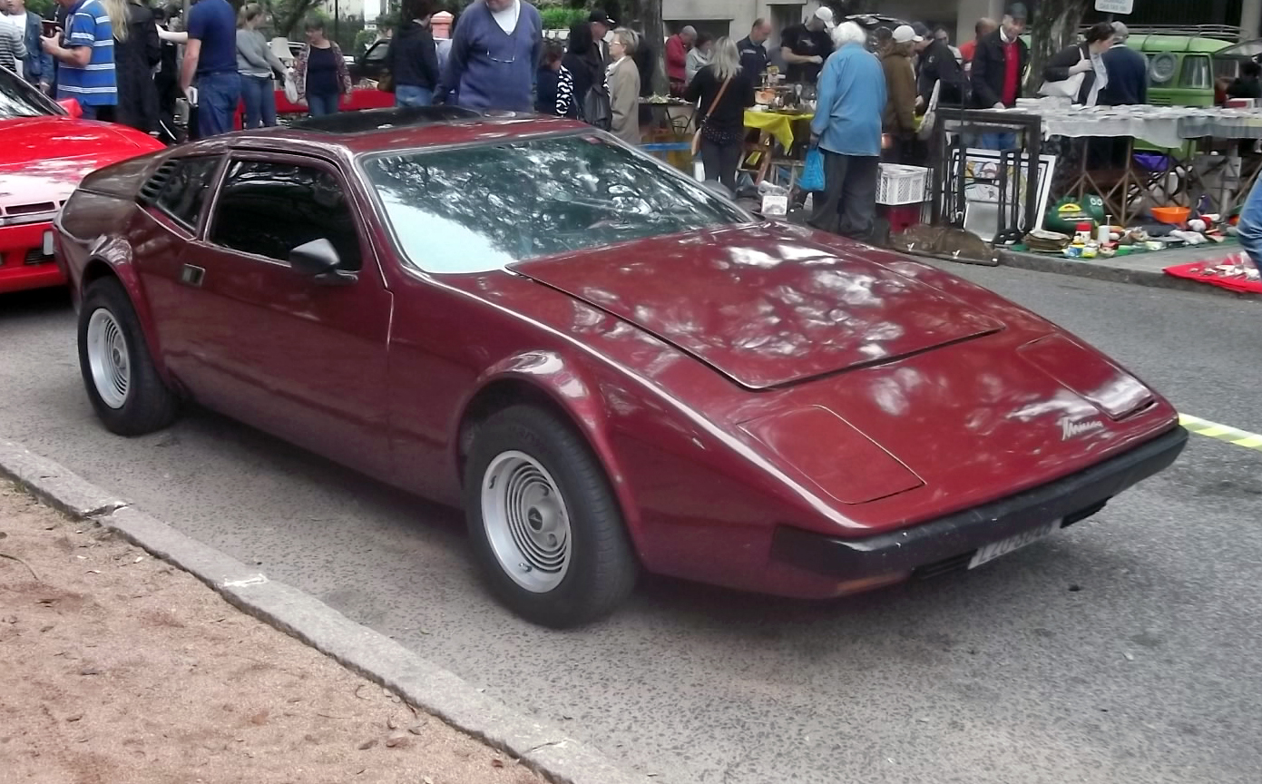 Miura Sport, the first Miura presented (1977-1980). Later models have larger bumpers.